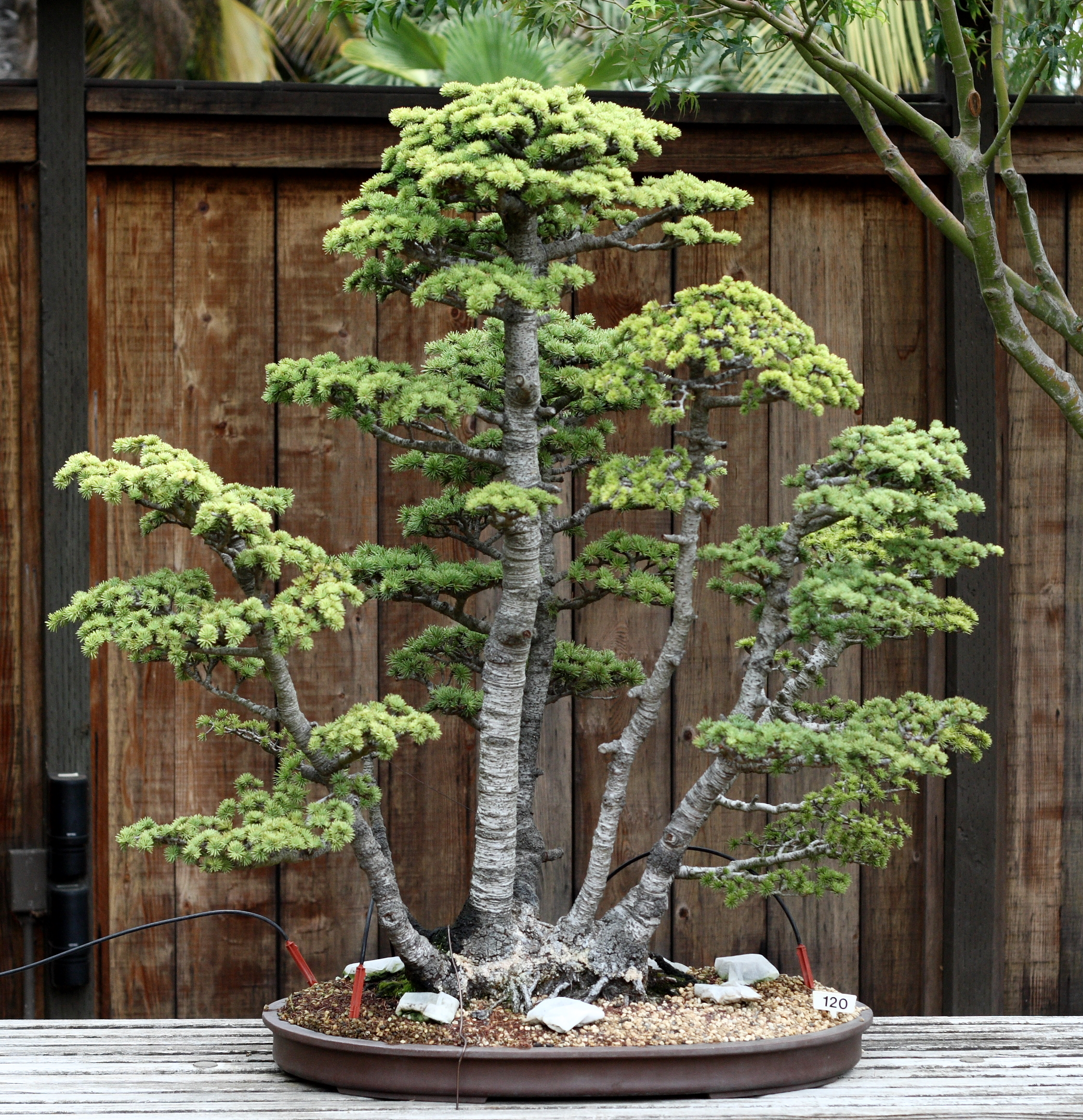 A group style Atlas Cedar (Cedrus libani var. atlantica), bonsai 120 of the Golden State Bonsai Federation Collection North in Oakland, California (now called the GSBF Bonsai Garden at Lake Merritt). It was donated by Jim Ransohoff and styled in 1959 from small seedlings.